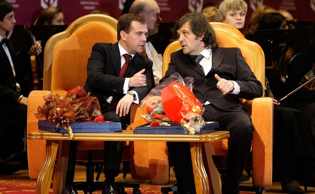 Dmitry Medvedev with the Serbian film director Emir Kusturica.